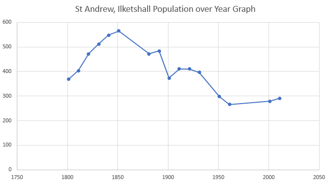 Total Population of St Andrew, Ilketshall, Suffolk as reported by the Census of Population from 1881 to 2011